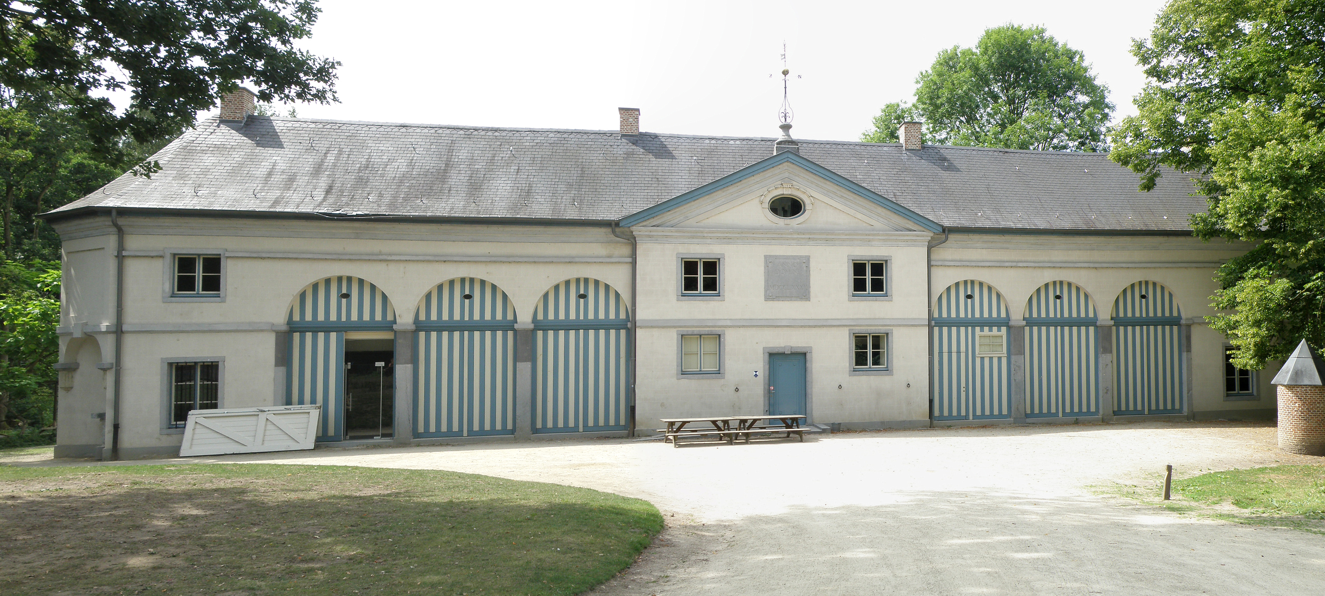 Sint-Katelijne-Waver (prov. Antwerpen, België). Abdij van Rozendaal (domein Roosendael), Koetshuis.